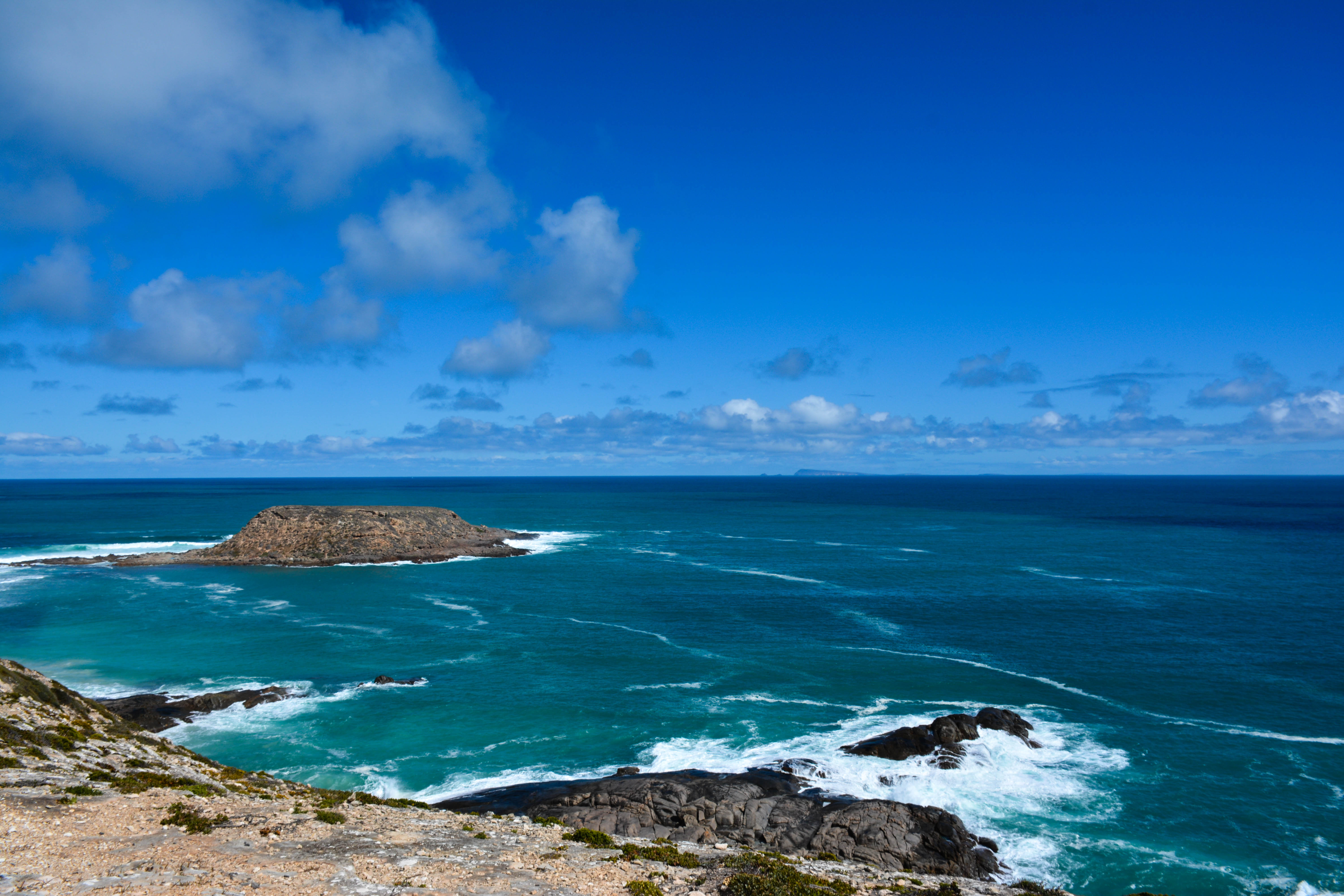 Looking west from Royston Head towards the small Royston Island, Innes National Park, Yorke Peninsula, South Australia. Wedge Island is visible on the horizon.